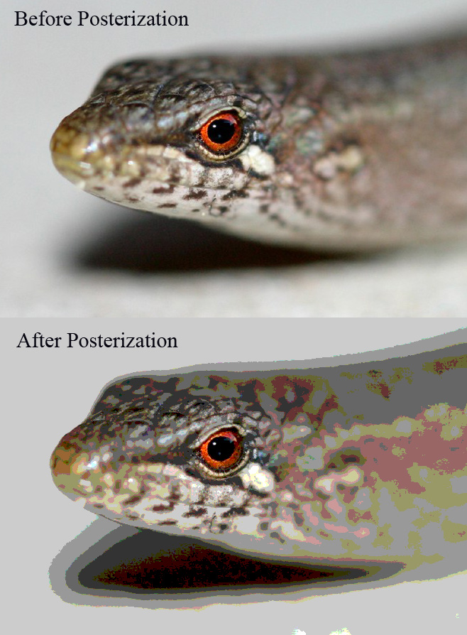 The following is an example of a scenario where posterization may occur, and relates to the image above. A photo saved in JPEG has 256 variations of luminosity in Red, Green and Blue (RGB) in which to derive its colours. This is approximately 16.7 million colours (256*256*256). However, if you were to take this image and save it as a GIF format image, which has a total of only 256 variations of RGB in which to work with, then the subtle transitions in colour and luminosity that your original photo contained may end up in very obvious and aesthetically unpleasing 'jumps' from one shade to another. This is posterization.